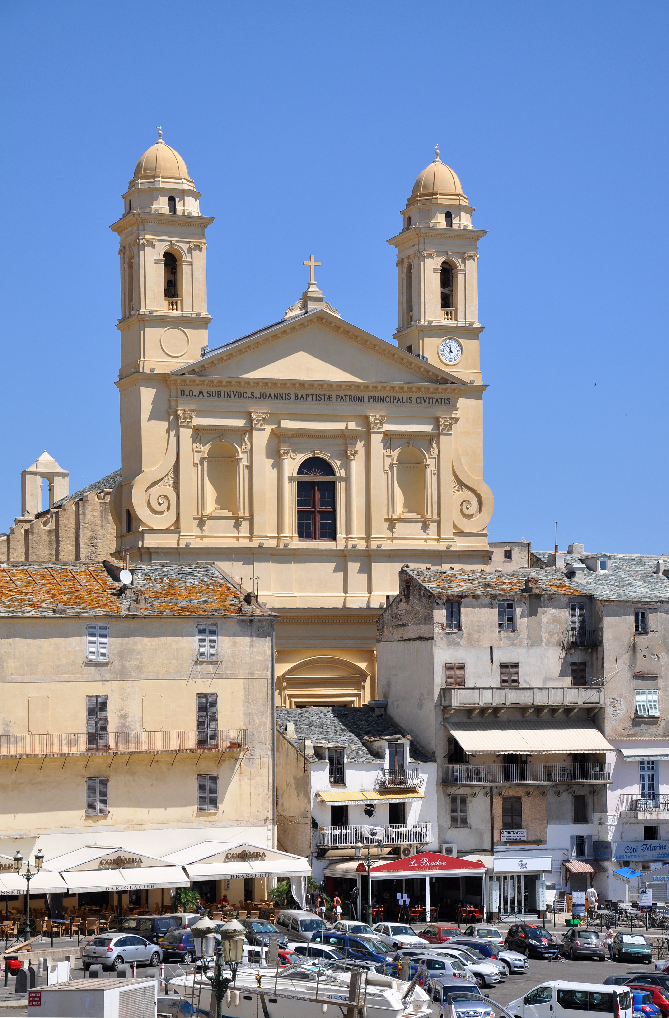 L'Eglise St Jean-Batiste of Bastia